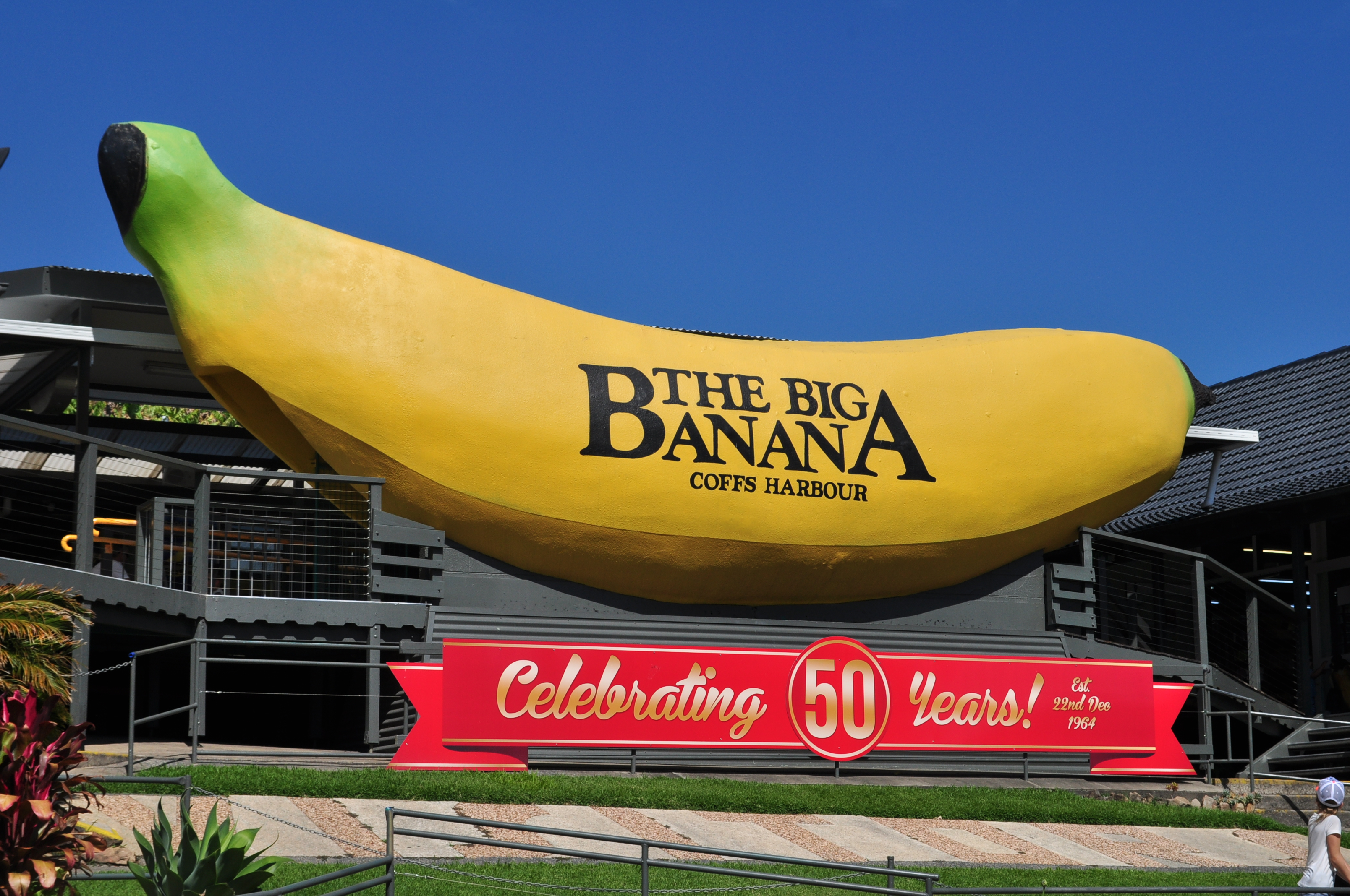 Big Banana at Coffs Harbour NSW with its Celebrating 50 Years banner.